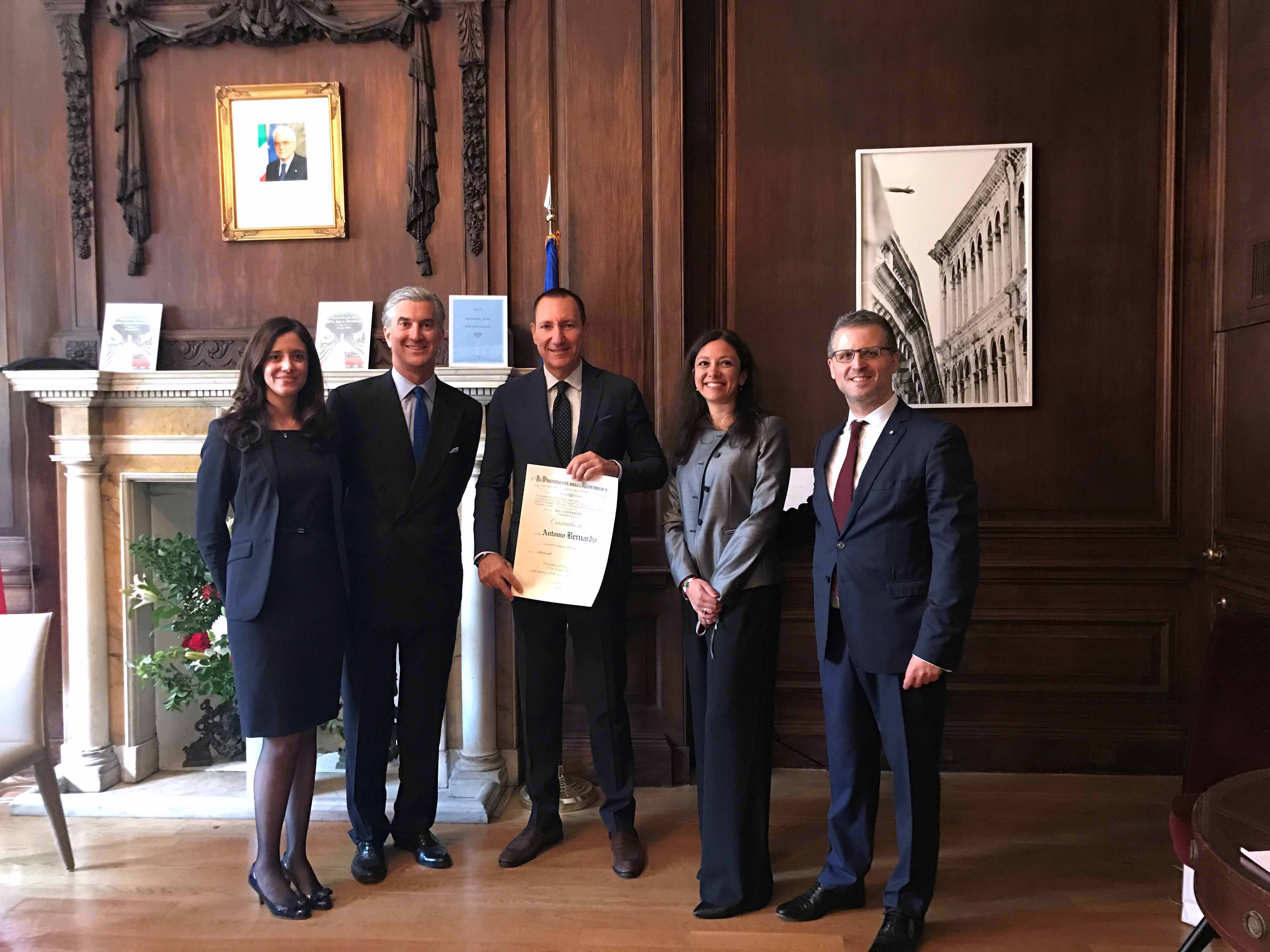 Antonio Bernardo he was honored with "Cavaliere of the Order of Merit of the Italian Republic"